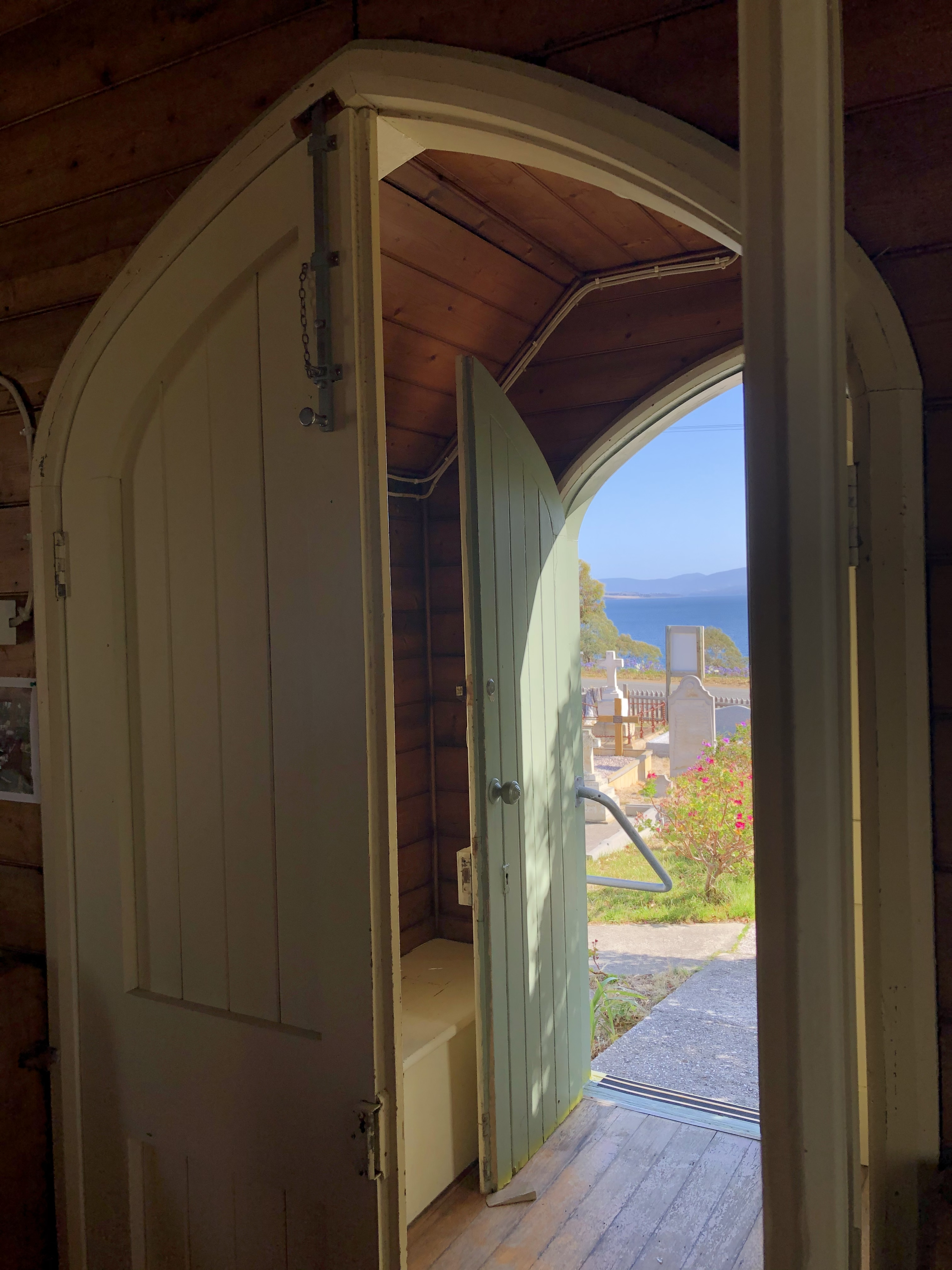 St Barnabas church is situated on a high hill overlooking Half Moon Bay and the Derwent River.